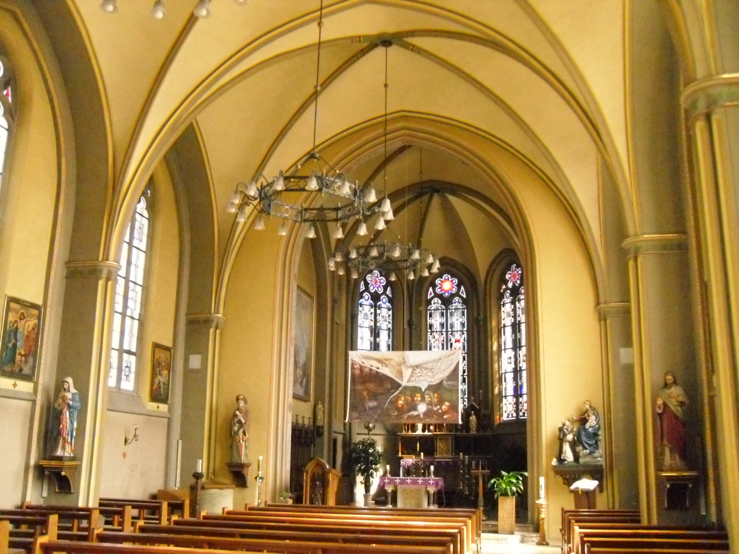 Inside St Jacobus Lutten, lower saxony